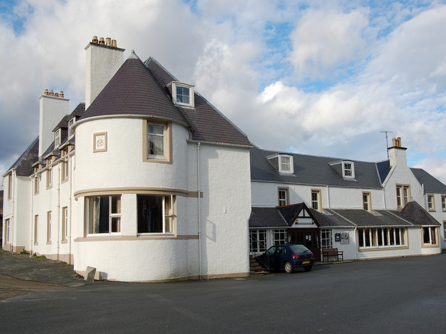 Sligachan Hotel More a place of mountaineering legend than simply a hotel. This is where Norman Collie spent many nights when he was exploring the Black Cuillin with John MacKenzie in the 1880s and 1890s.